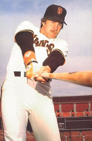 Professional baseball player Dave Bergman